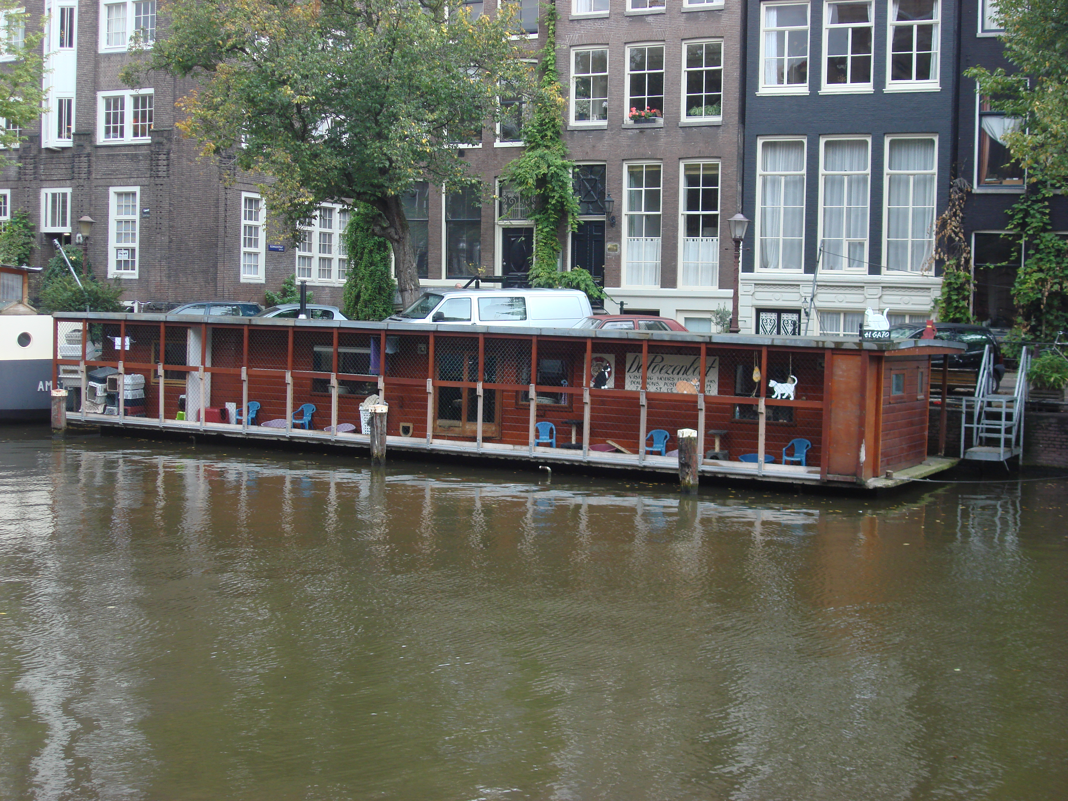 'Cat Boat' (De Poezenboot) in Amsterdam The Cat Boat is the only animal sanctuary in the Netherlands that literally floats. A refuge for stray and abandoned cats which, thanks to its unique location on a houseboat in Amsterdam's picturesque canal belt, has become a world-famous tourist attraction. Address: de Poezenboot Singel 38 G 1015 AB Amsterdam The Netherlands